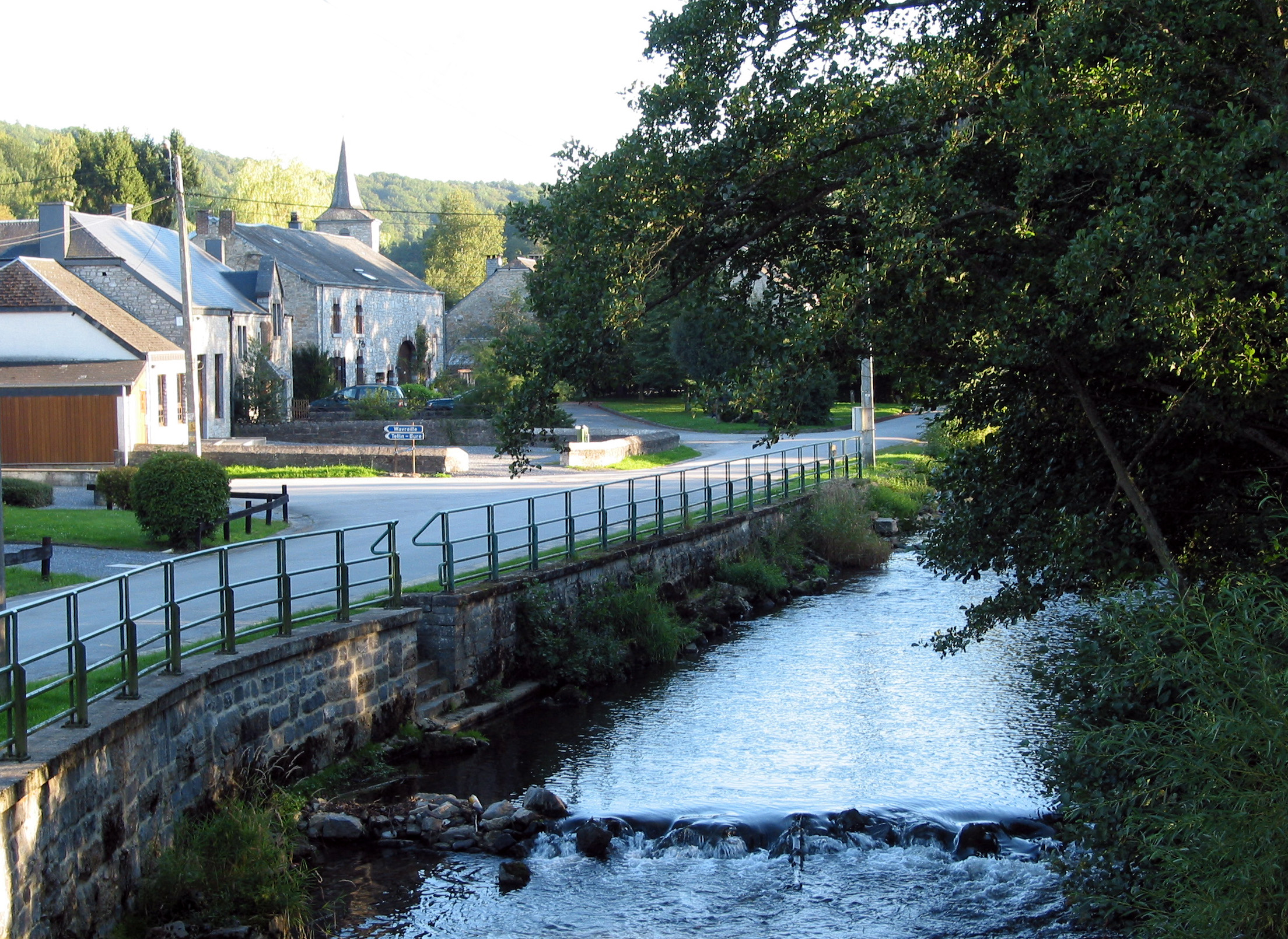 Belvaux (Belgium), the right bank of the Lesse river.